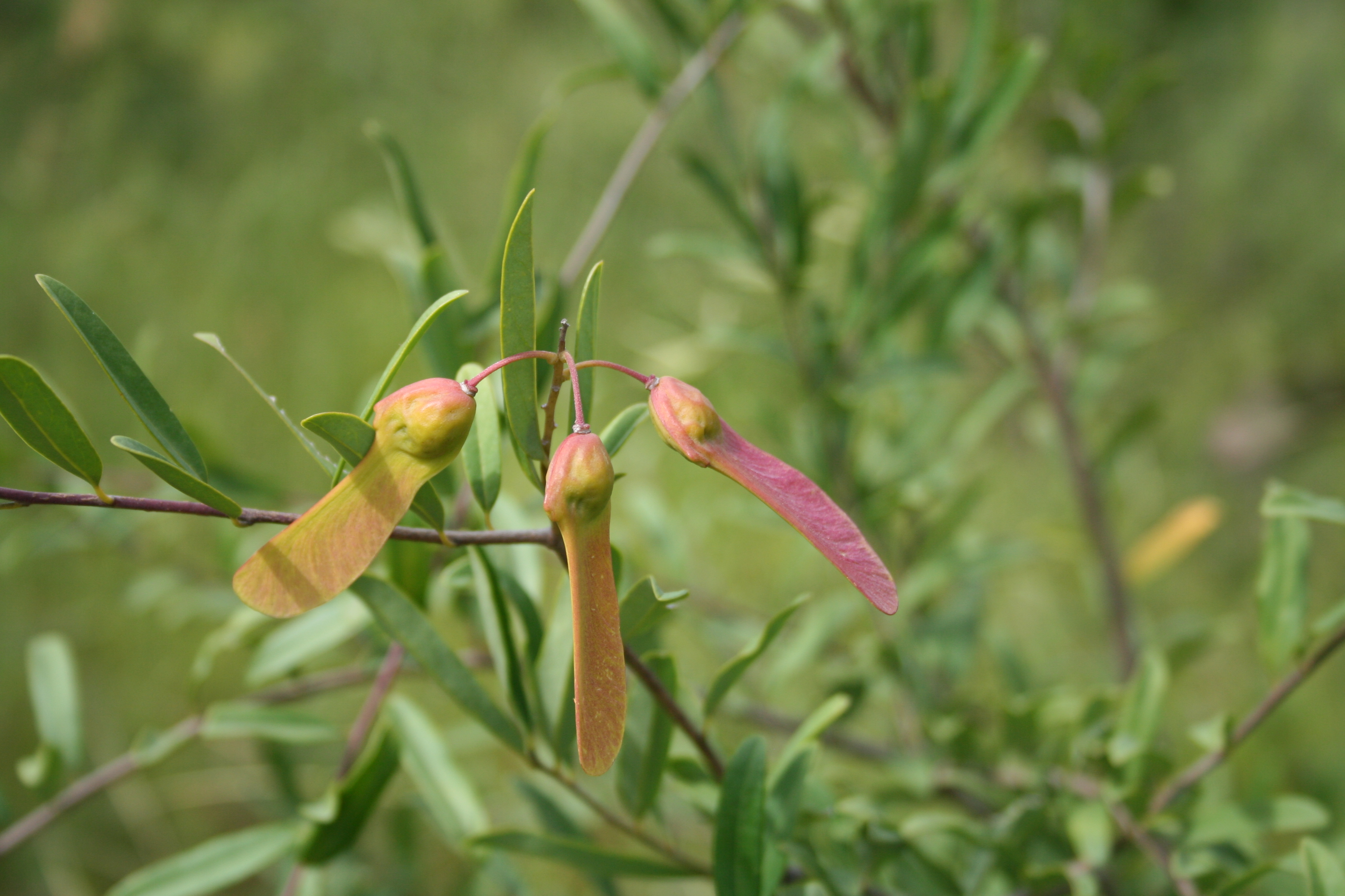 fruits of Securidaca longipedunculata, SW Burkina Faso